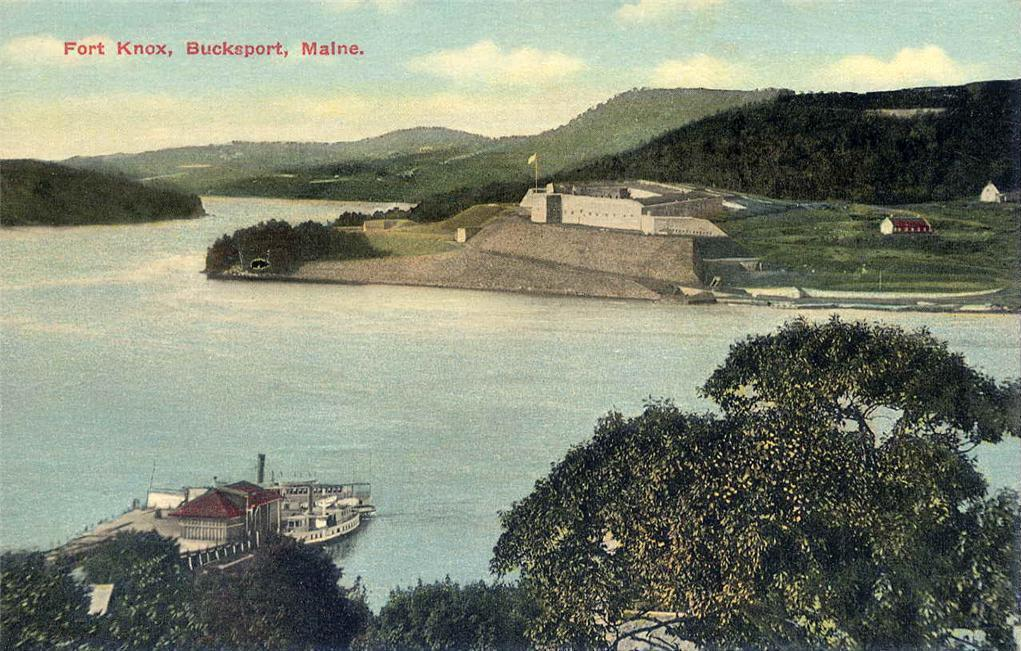 View of Fort Knox from Bucksport, Maine. Built between 1844 and 1869, Fort Knox is located in the town of Prospect.